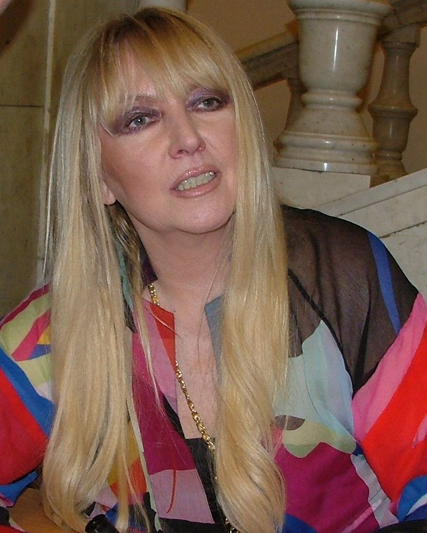 Polish singer Maryla Rodowicz at Christmas celebrations in the Congress Hall of Warsaw, Poland.